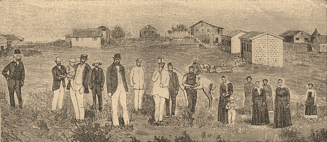 Illustration from Brockhaus and Efron Jewish Encyclopedia (1906—1913)